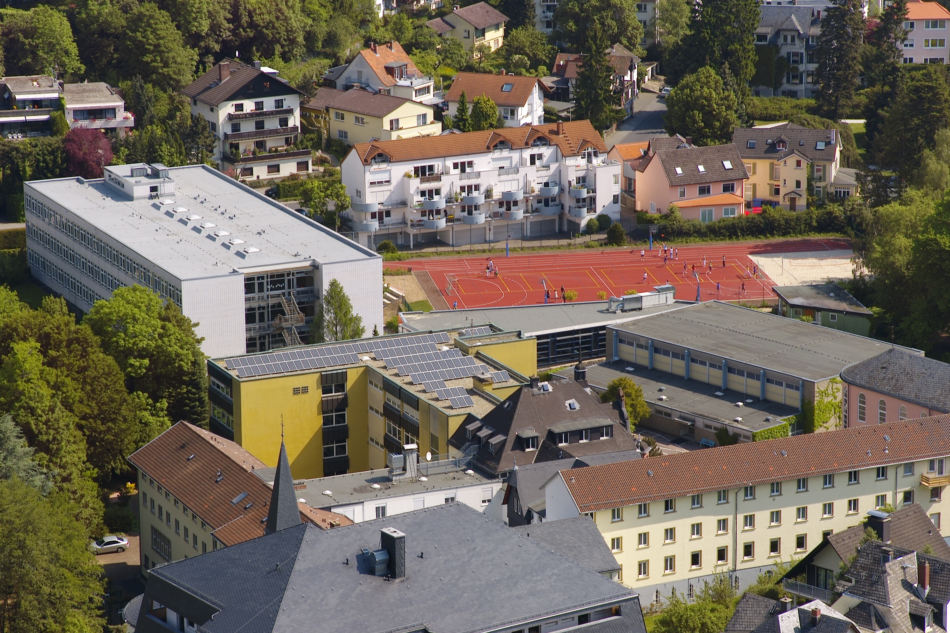 catholic school St. Angela at Königstein im Taunus, Germany